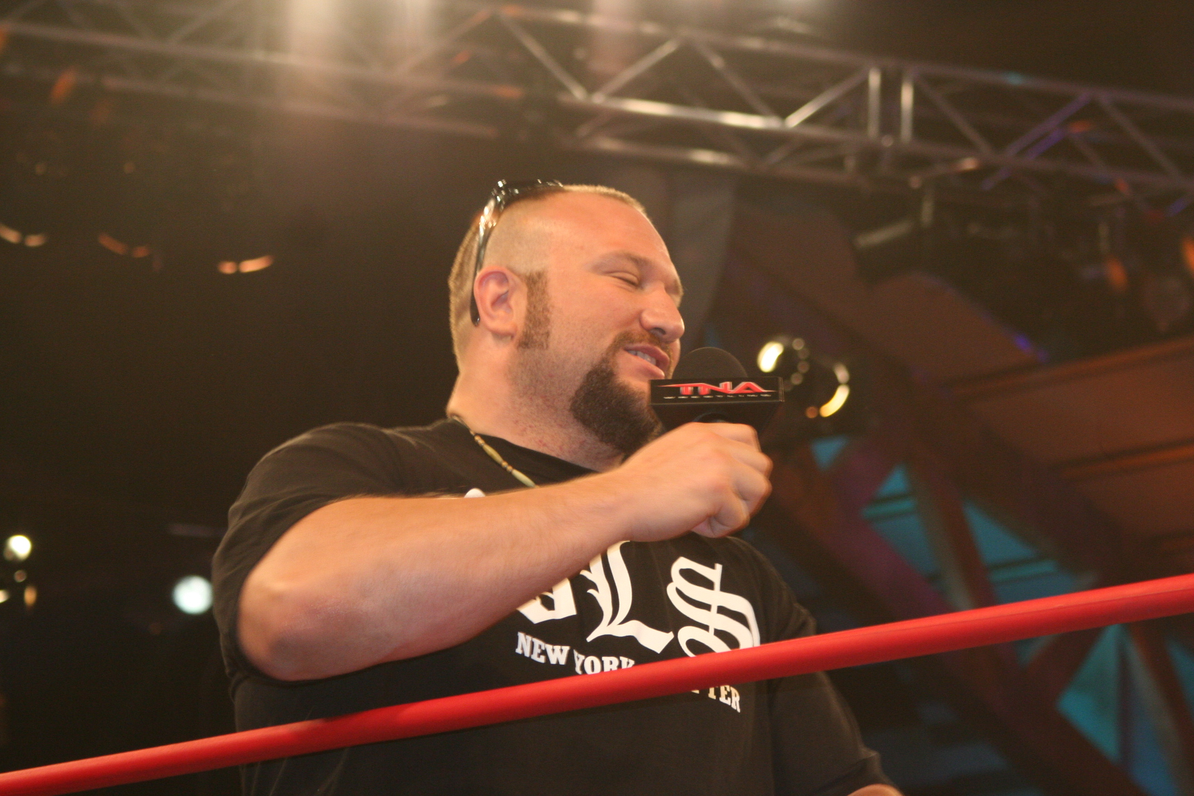 Professional wrestler Brother Ray at the TNA Impact! taping on July 26, 2010.